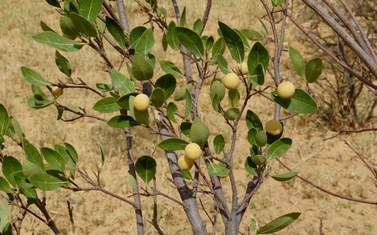 Boscia senegalensis fruits and leaves photographed near Belbedji, Zinder Region, Niger